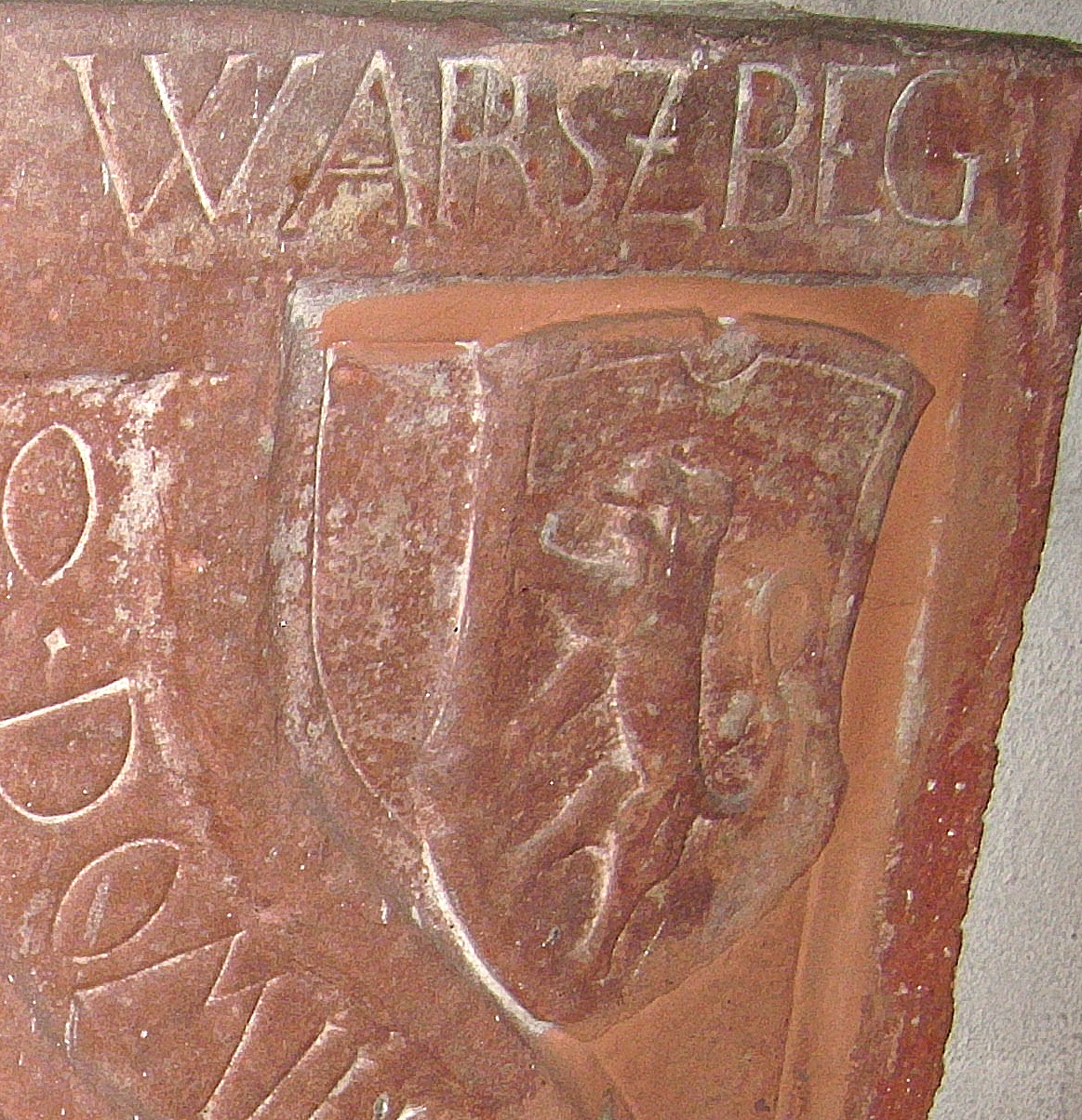 Wappen der Adelsfamilie "von Warsberg", von Epitaph in der Pfarrkirche St. Ulrich, Deidesheim